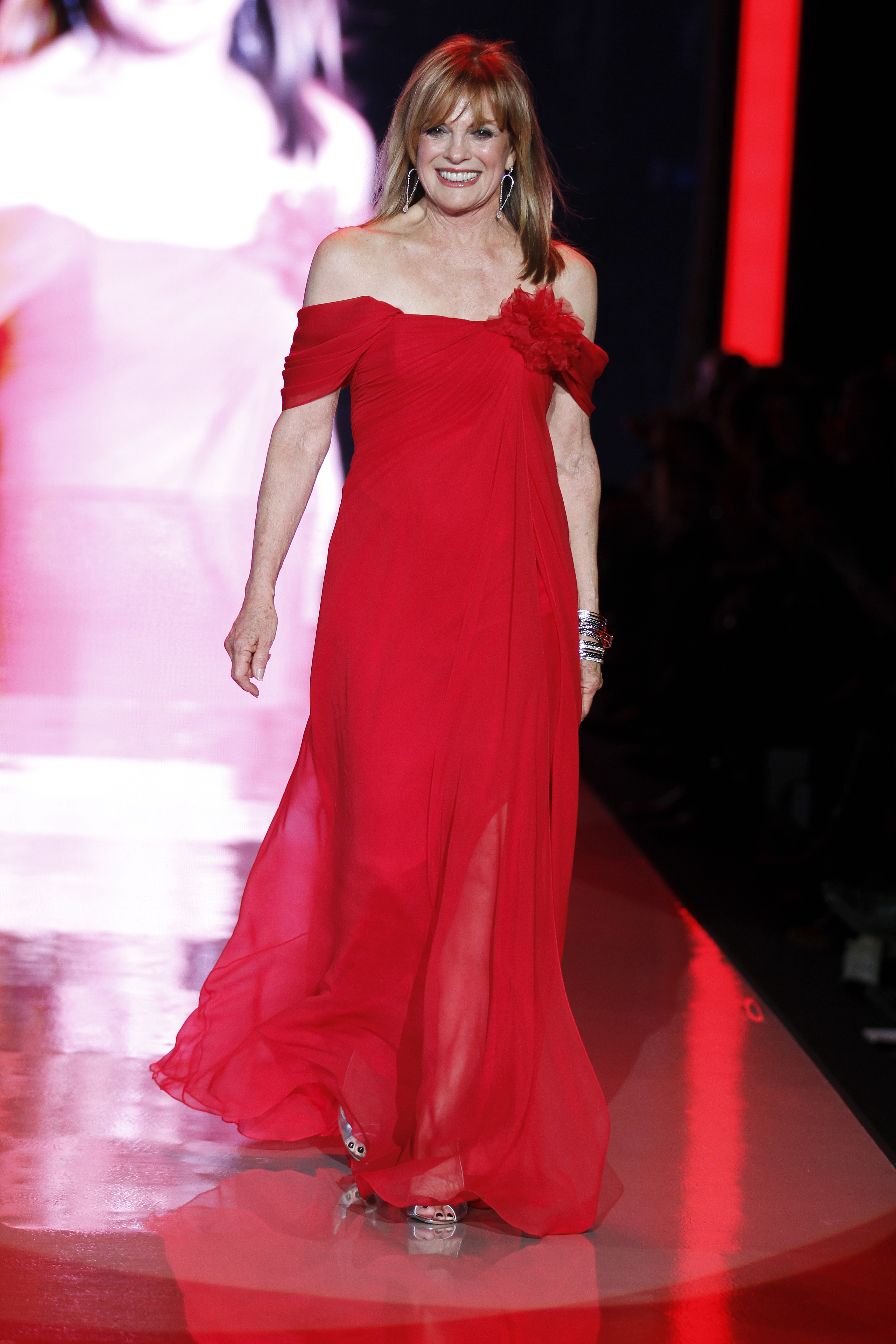 Making its debut at the Lincoln Center venue, The Heart Truth’s Red Dress Collection Fashion Show unveiled its 2011 collection of red dresses designed to celebrate the Red Dress as the national symbol for women and heart disease awareness. More than 20 of today’s top celebrities walked the runway in red dresses by America’s top designers to inspire women to take action to protect their heart health. The Heart Truth® is a national awareness campaign for women about heart disease sponsored by the National Heart, Lung, and Blood Institute (NHLBI), part of the National Institutes of Health, U.S. Department of Health and Human Services (HHS). ® The Heart Truth, its logo and The Red Dress are registered trademarks of HHS. Participation by Mercedes-Benz Fashion Week, Diet Coke, Swarovski, AOL, and Bobbi Brown does not imply endorsement by HHS.